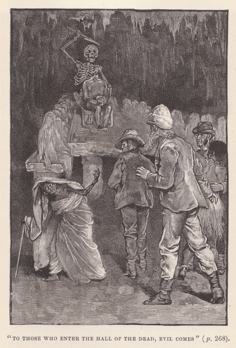 Illustration from H. Rider Haggard's King Solomon's Mines, by Walter Paget.